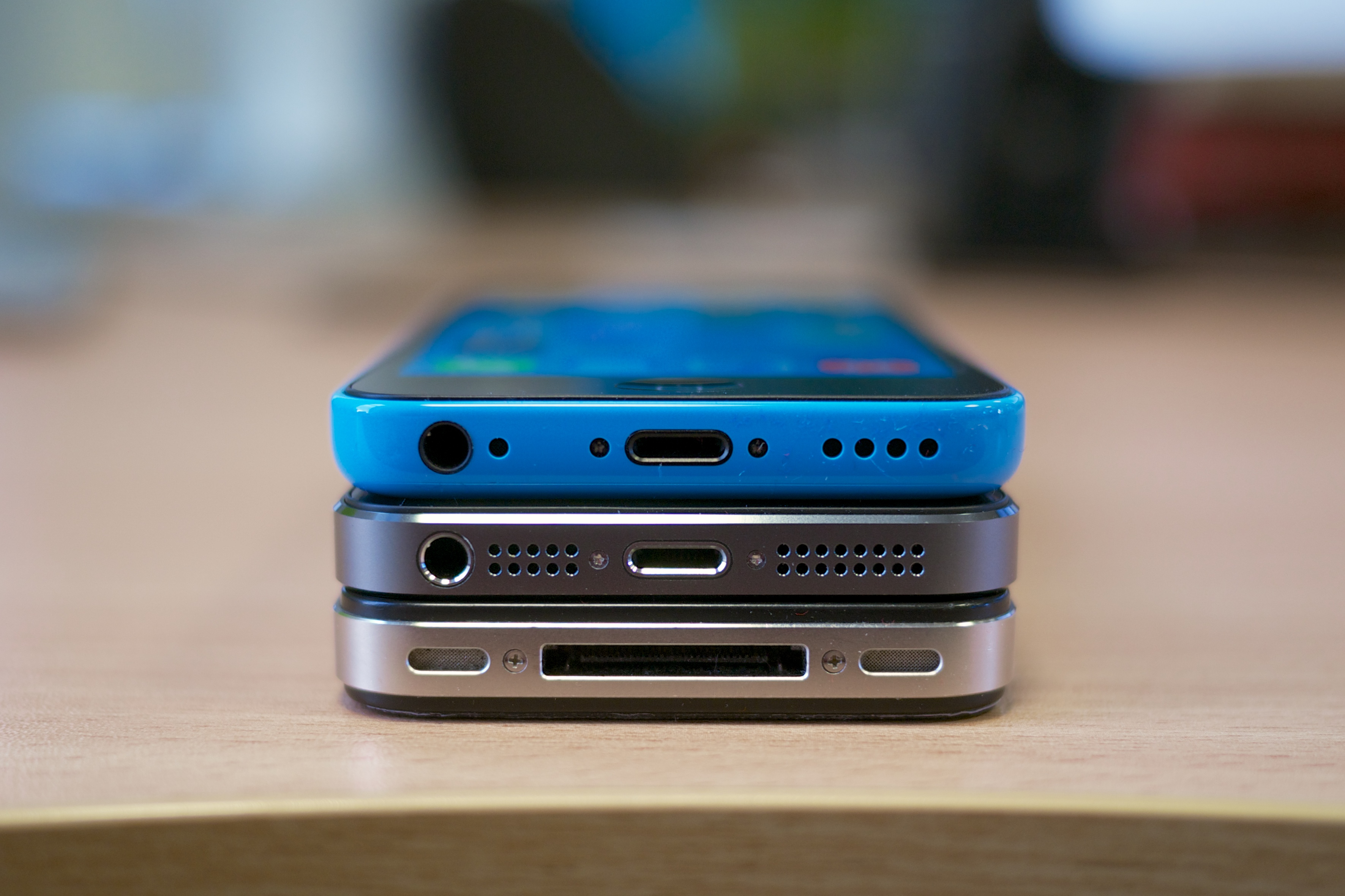 Size comparison of iPhone 5C/5S/4/4S